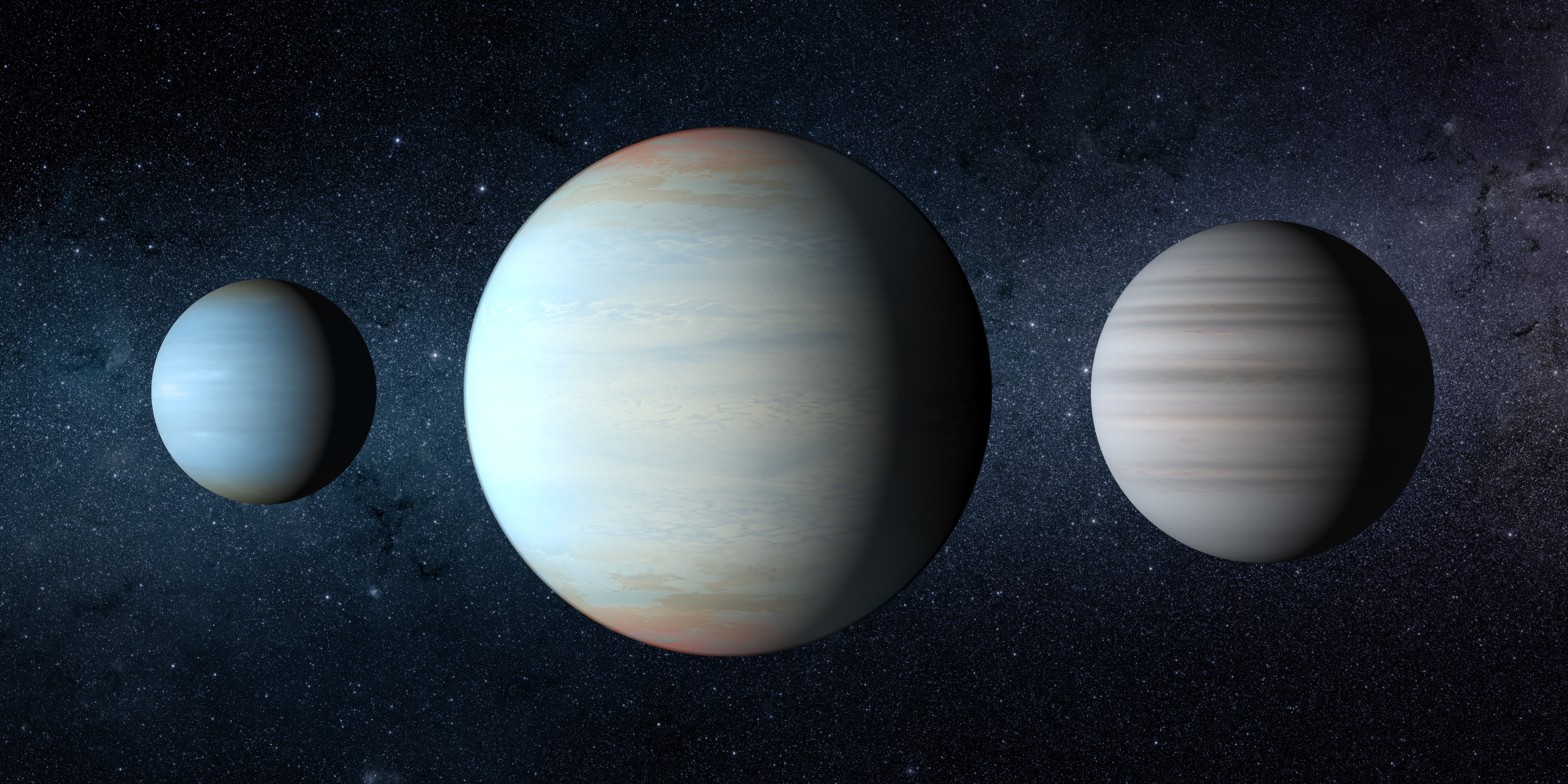 Artist's depiction of the relative sizes of the three planets in the Kepler-47 system. The large middle planet is the newly discovered planet, Kepler-47d.